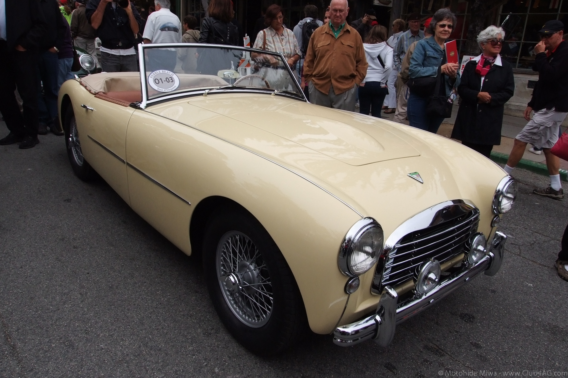 Monterey_Historics_2011-10-153